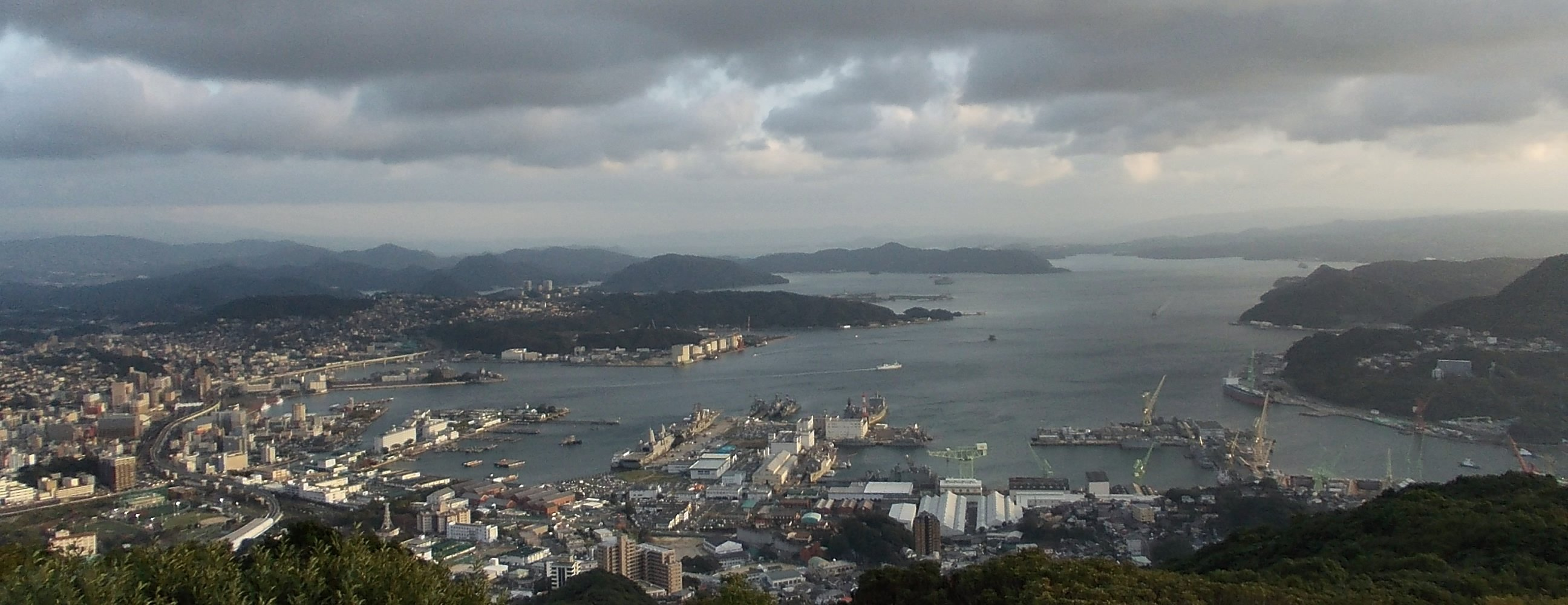 A view of the Port of Sasebo from Mount Yumihari observatory.